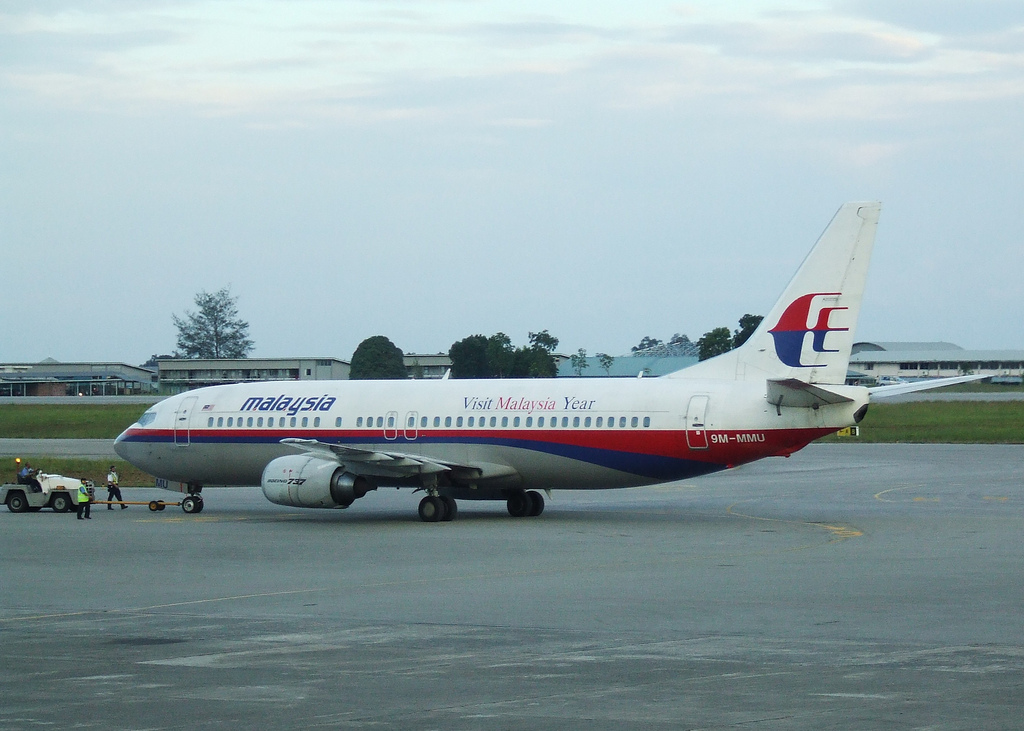 Malyasia Airlines 737 9M-MMU pushed back from the gate in Kuching. Taken with a Fujifilm FinePix S5600 through the terminal window.